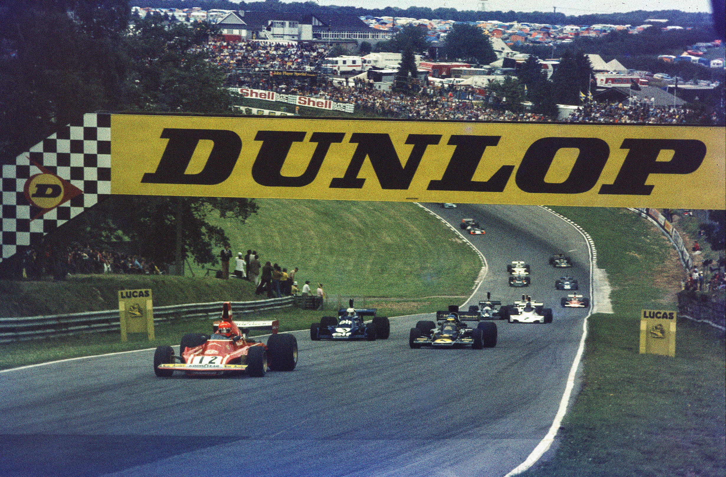 Brand Hatch Druids GP 74